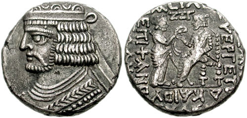 Coin of the Parthian king Vardanes II